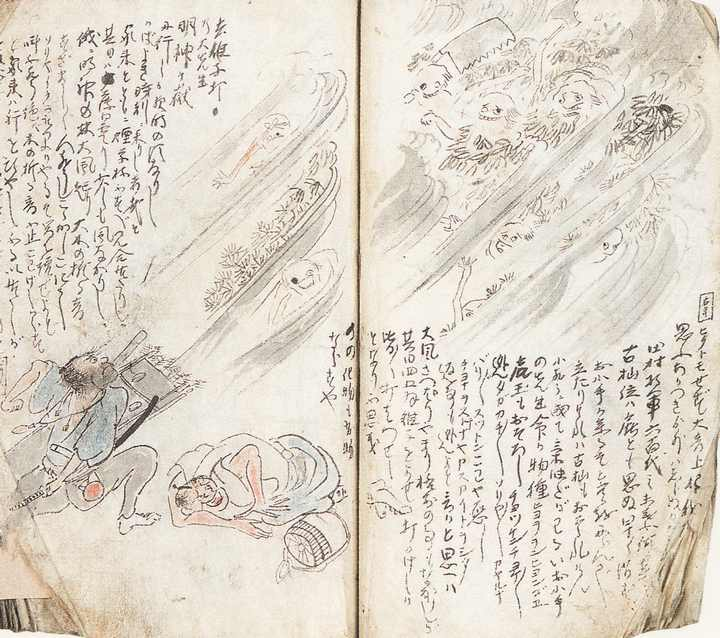 Furusoma (古杣) from the "Ehon atsumegusa" (絵本集艸, Japanese picture)